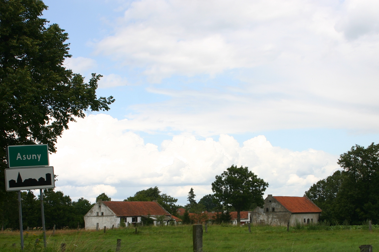 Asuny, Poland - OpenStreetMap(Info)